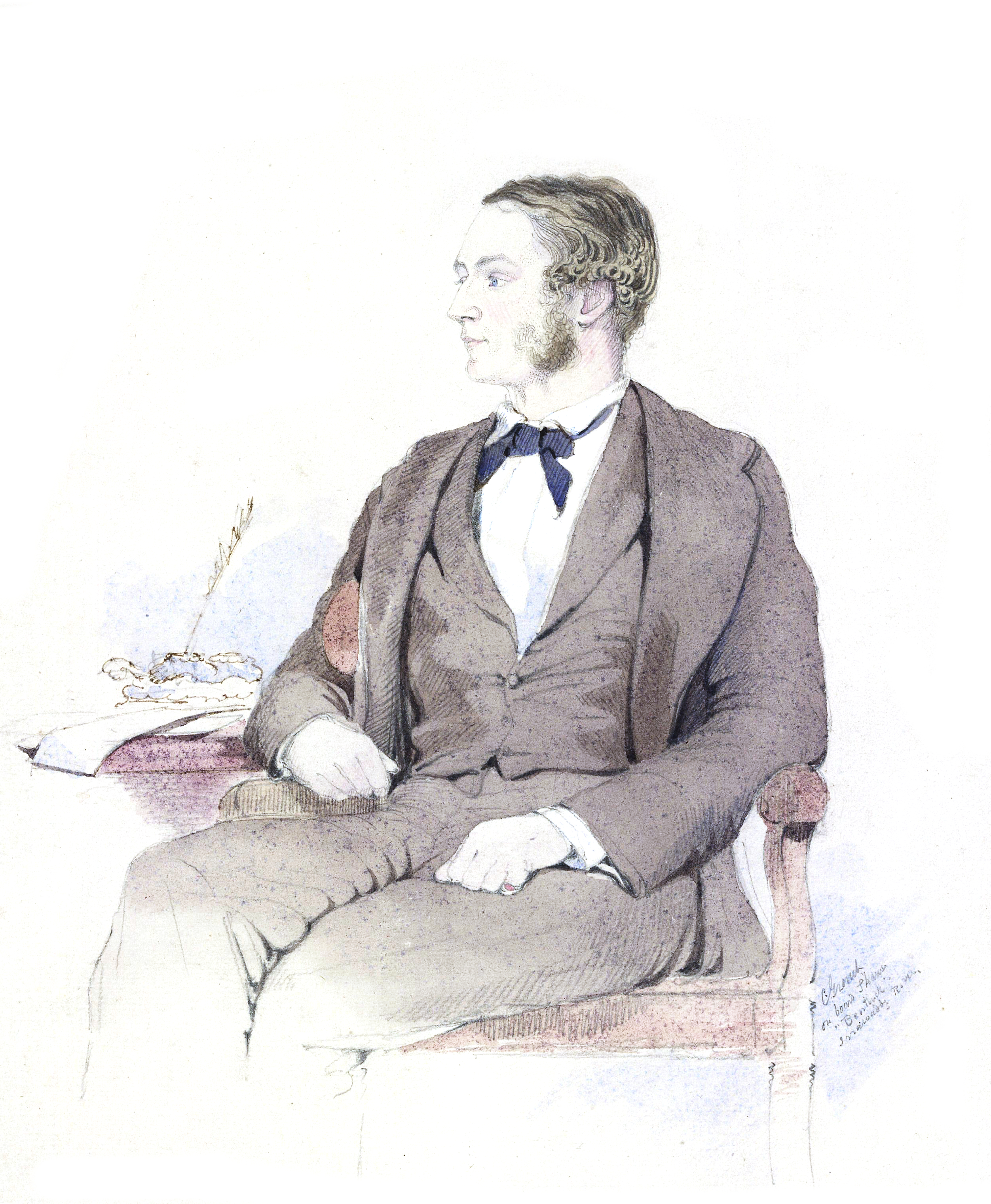 Sir Arthur Purves Phayre GCMG KCSI CB (7 May 1812 – 14 December 1885)